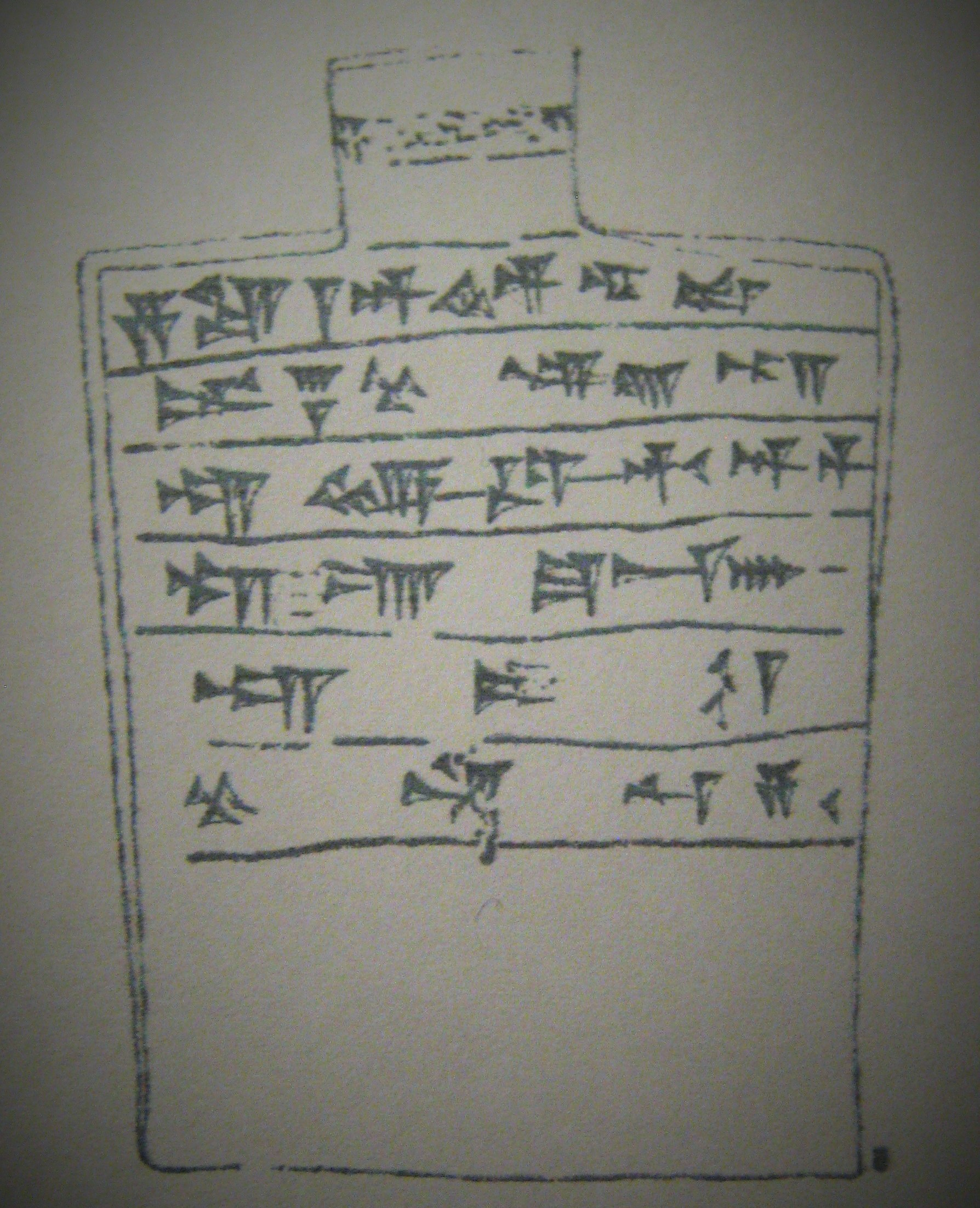 Stele of Adad-belu-ka"in - inscription